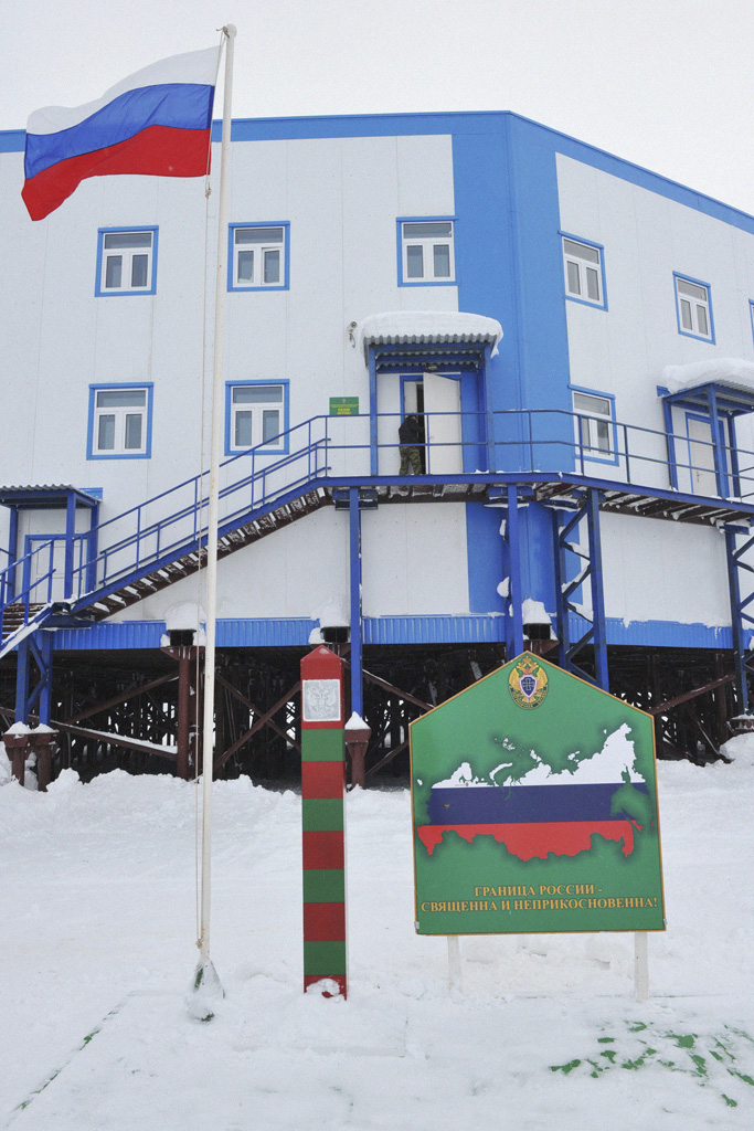 “Frontier station "Nagurskoye"”. Frontier station "Nagurskoye" of Federal Border Guard Service of Arkhangelsk region, located on Alexandra's Land island of Franz Josef Land archipelago.